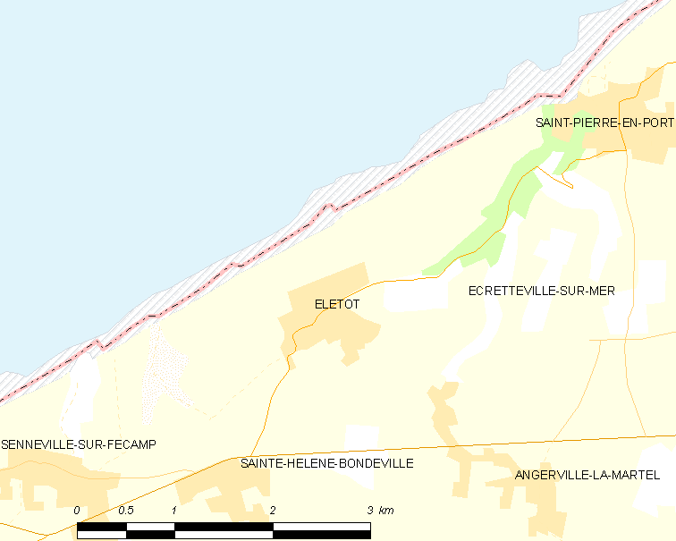 Map of French municipality Életot